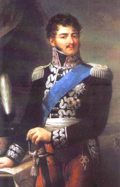 Prince Joseph Poniatowski